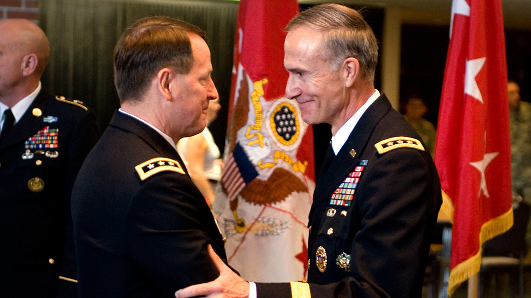 LTGs Franklin Hagenbeck and David Huntoon at their change of command ceremony 19 July 2010